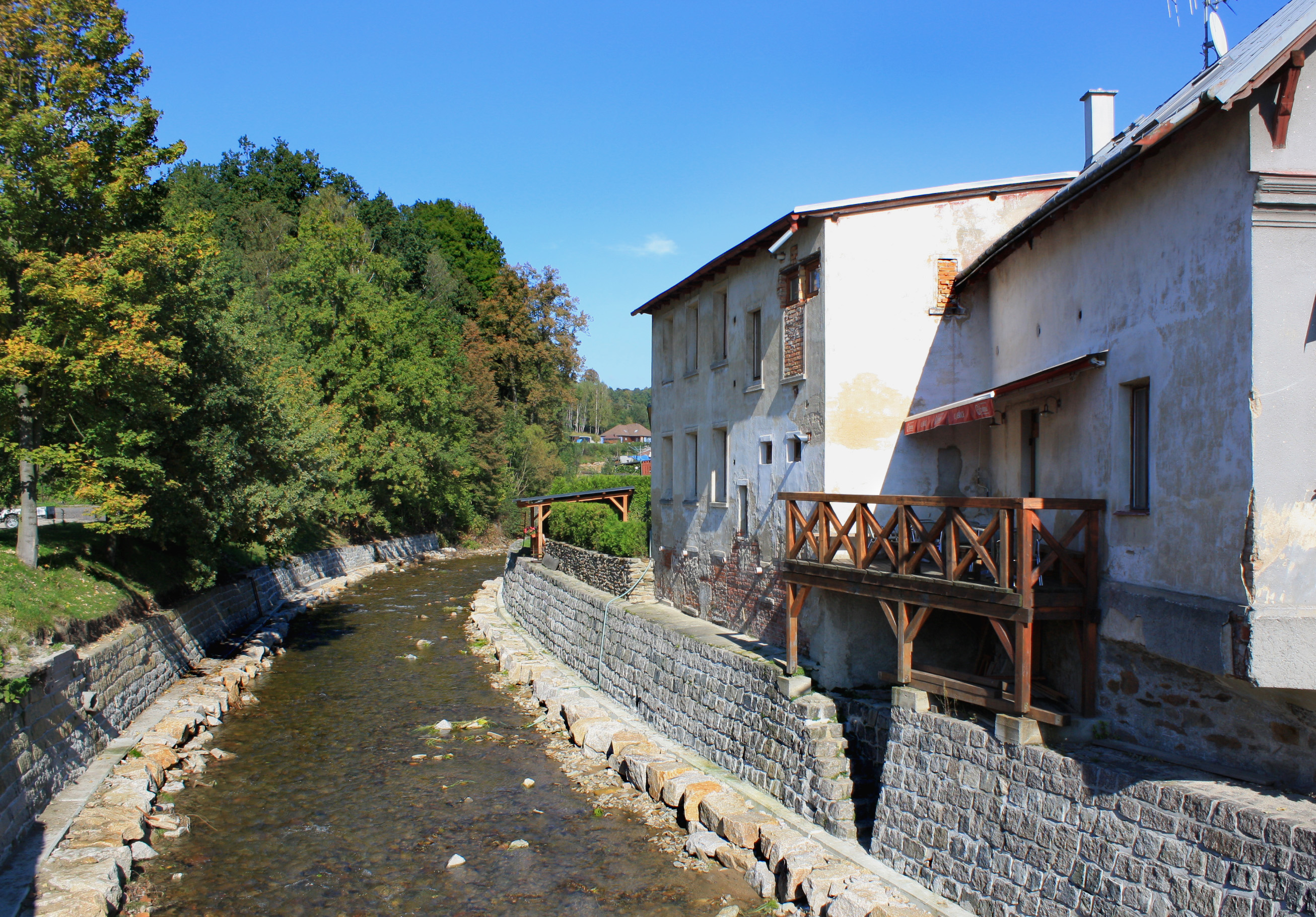 Jeřice river in Horní Chrastava, part of Chrastava, Czech Republic